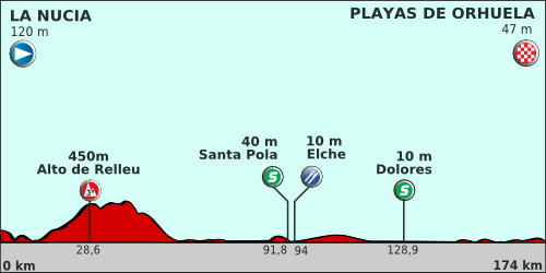 Profile of the 2nd stage: Vuelta a España 2011